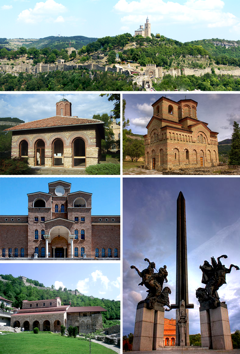 Collage of views from Veliko Tarnovo, Bulgaria